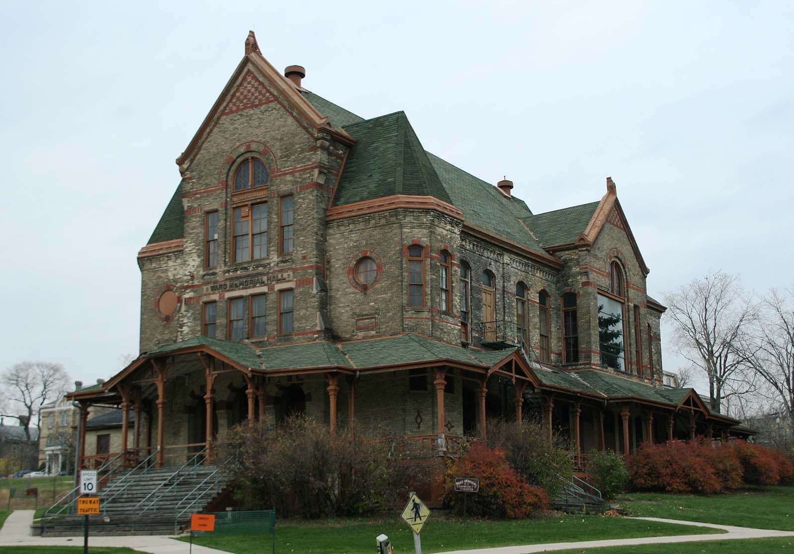 Ward Memorial Hall on the Milwaukee VA Grounds. National Registered Historic Place.